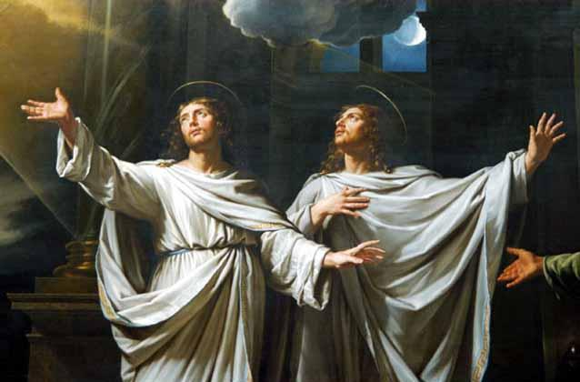 Saints Gervasius and Protasius, detail from The Apparition to Saint Ambrose.